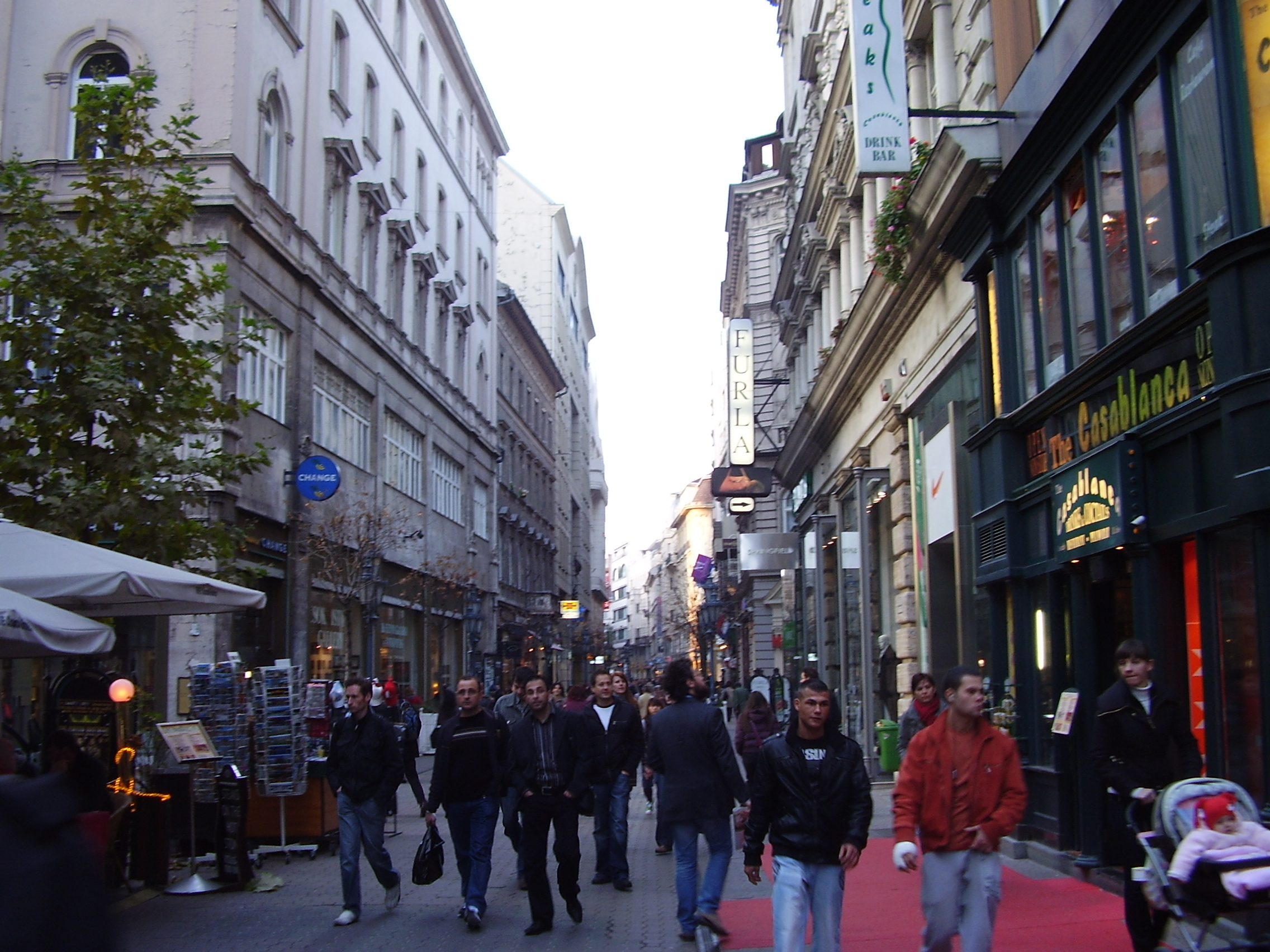 Váci utca and surroundings, Budapest